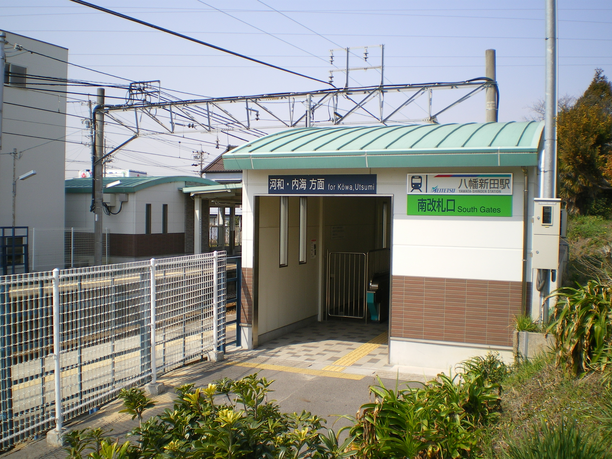 Nagoya Railroad Kowa Line Yawata Shinden Station South Gate (for Chita-Handa)